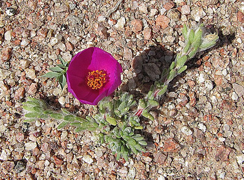 From the semi-arid zone of northwestern Argentina. In context at